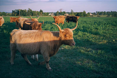 Highland cattle. Longhaired Cow, in upstate NY farm.